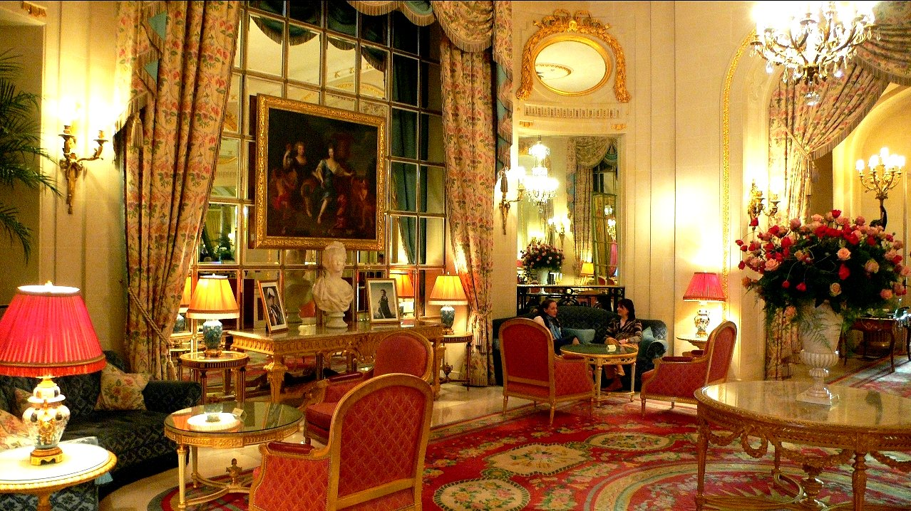 The Long Gallery of The Ritz, London